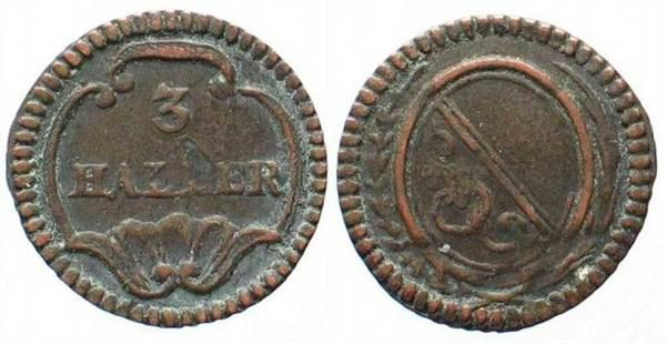 Coin "3 Haller", Zürich (Switzerland)